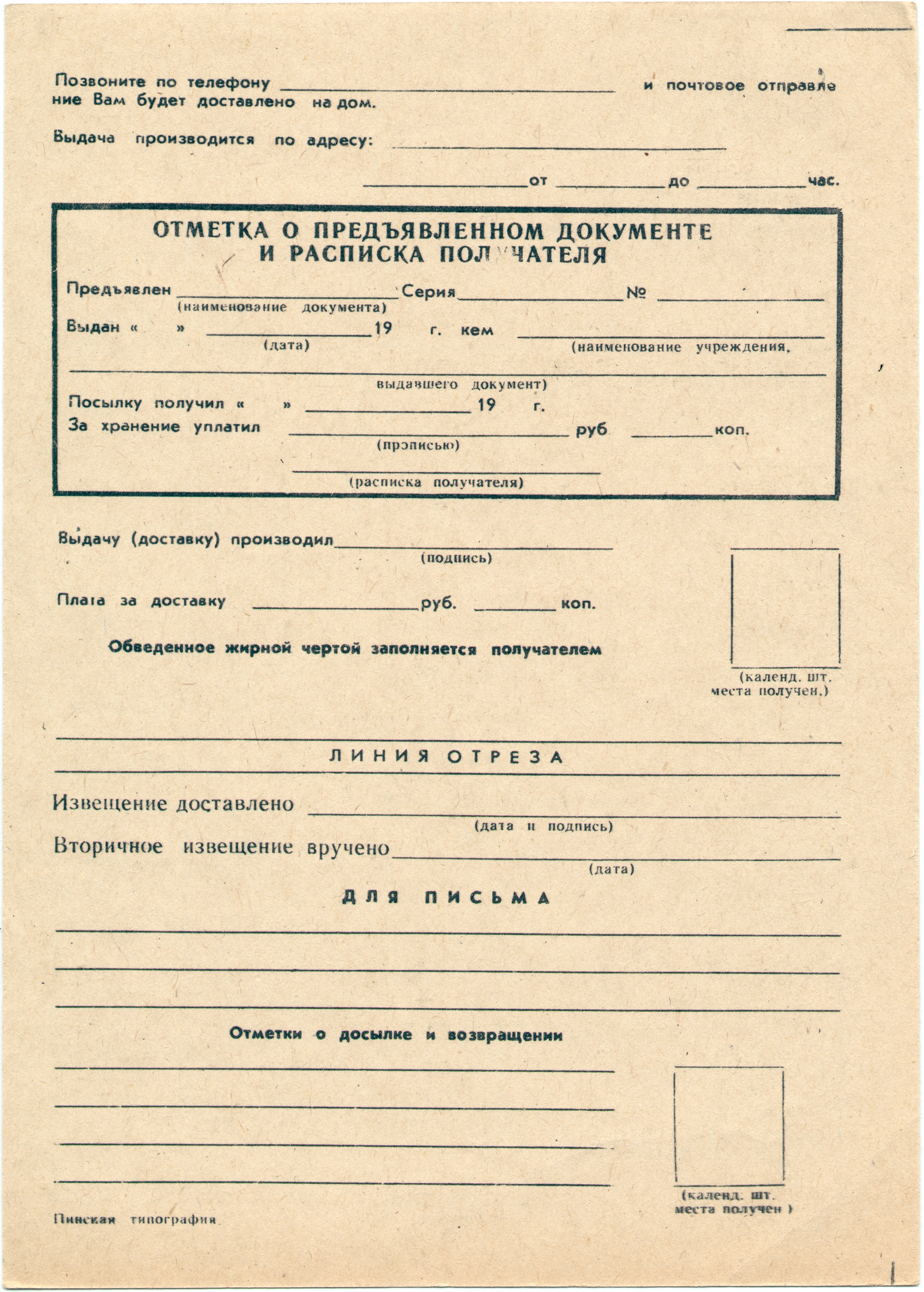 USSR Package Mailing form, Form 116, reverse side, 1990s.